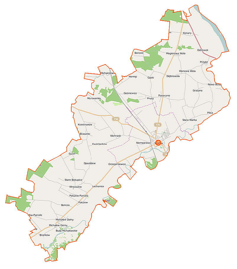 Map of Gmina Warka, Poland This map of Warka (gmina) was created from OpenStreetMap project data, collected by the community. This map may be incomplete, and may contain errors. Don't rely solely on it for navigation. Border coordinates51.905720.9674←↕→21.297051.6747